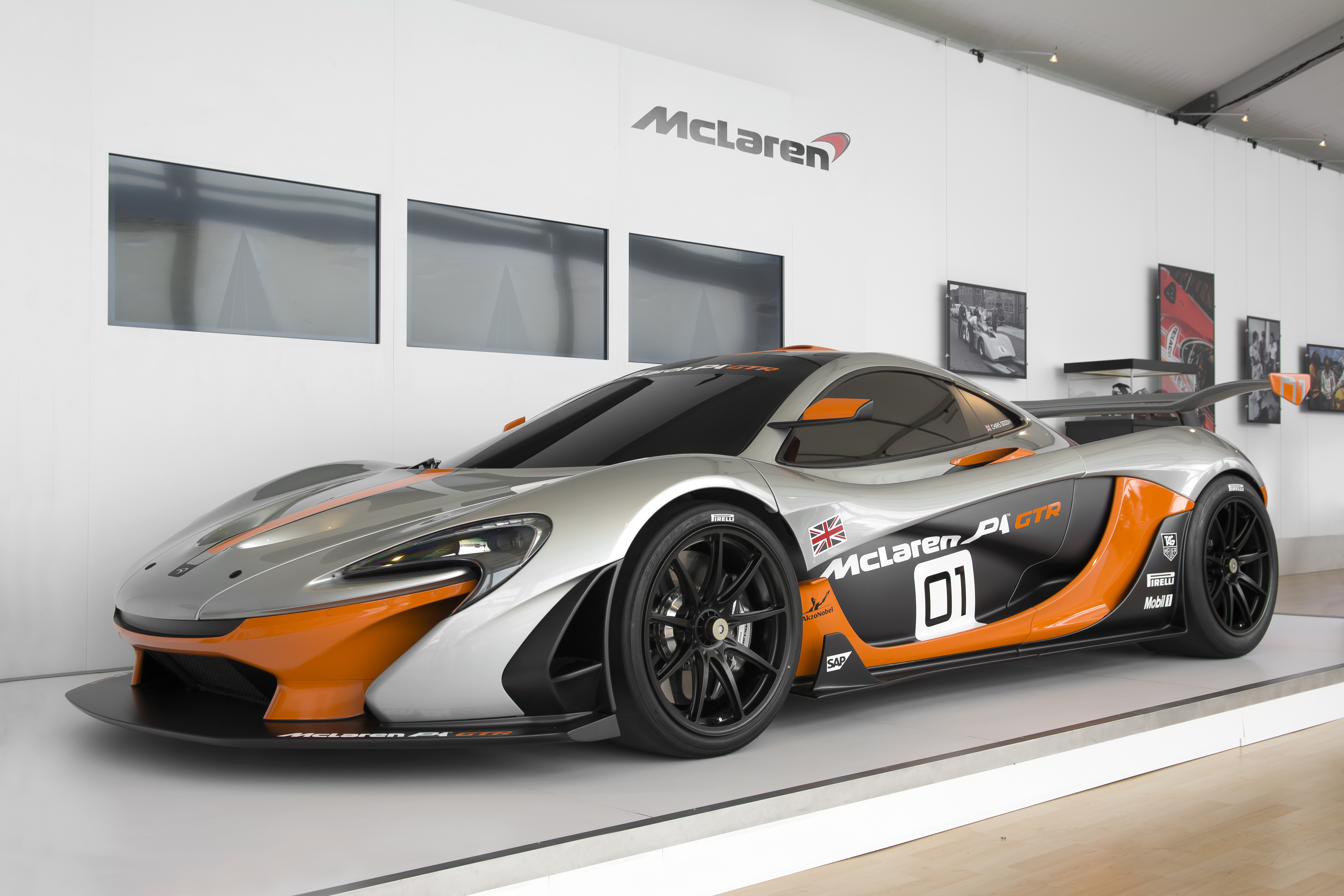 McLaren P1 GTR in Pebble Beach during Monterey Car Week 2014.